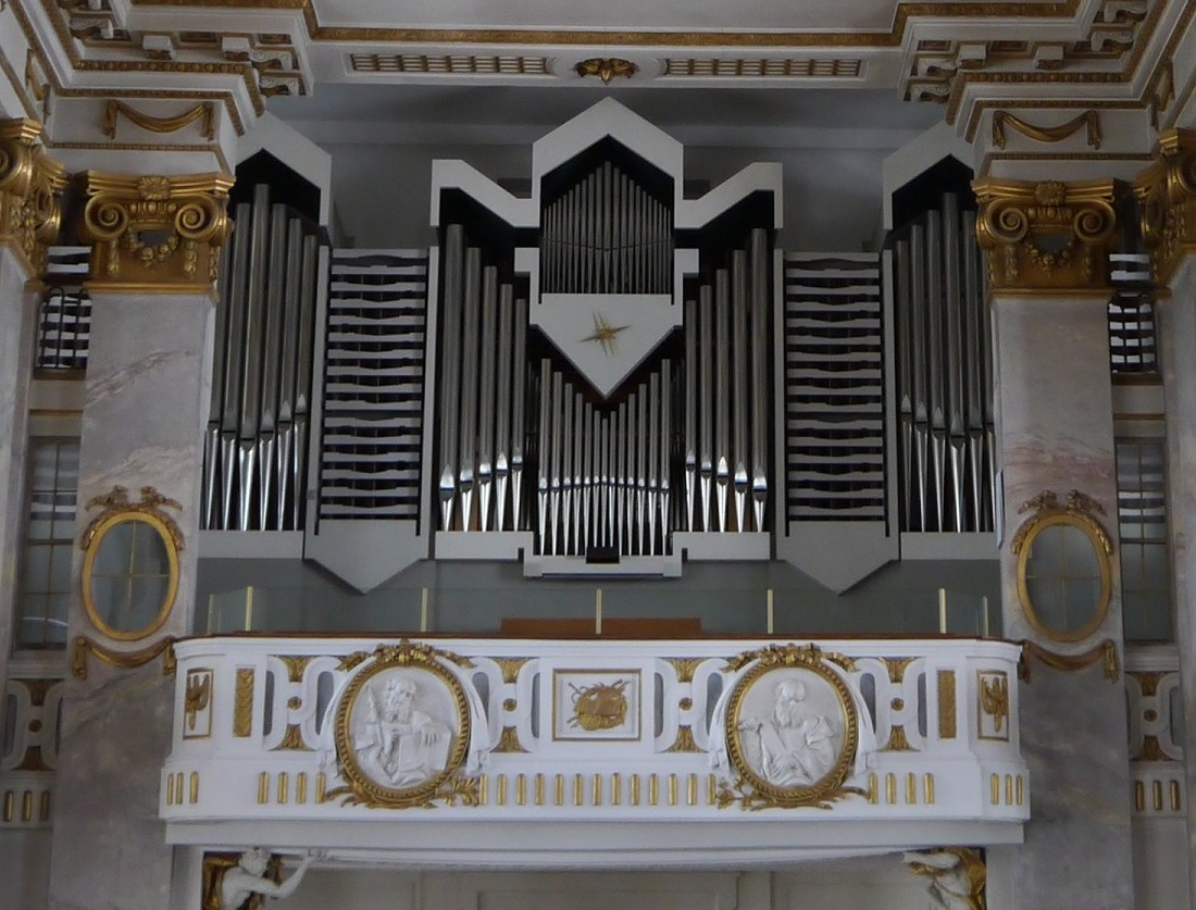 pipe-organ of Buchau Monastery Church, Bad Buchau